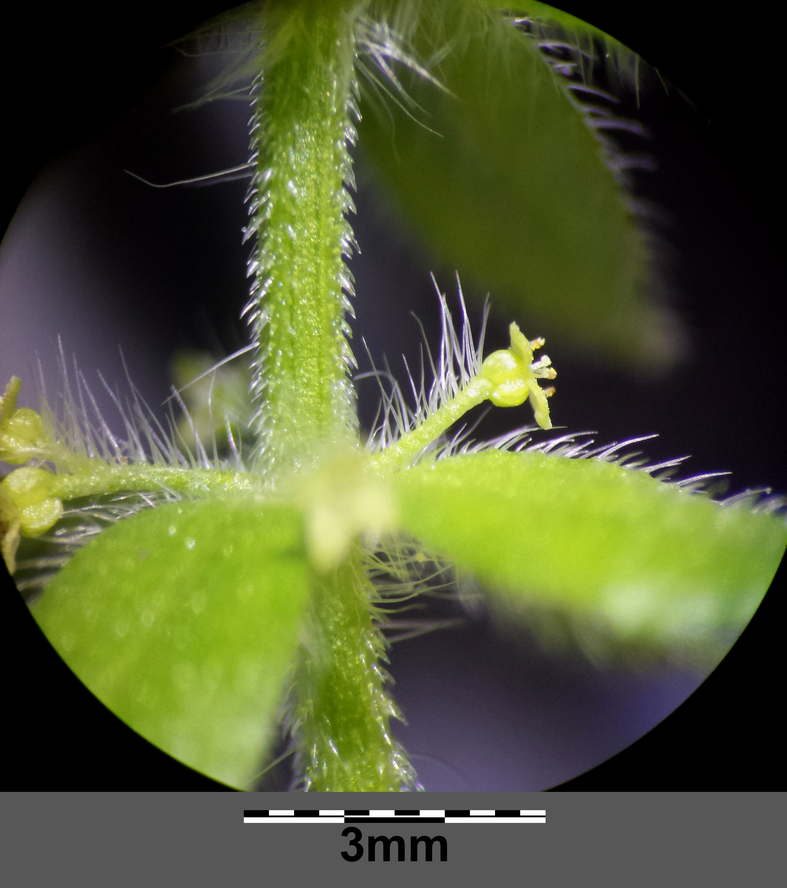 Inflorescence/flower Taxonym: Cruciata pedemontana ss Fischer et al. EfÖLS 2008 ISBN 978-3-85474-187-9 Location: Lange Lüsse near Marchegg, district Gänserndorf, Lower Austria - ca. 140 m a.s.l. Habitat: poor grassland